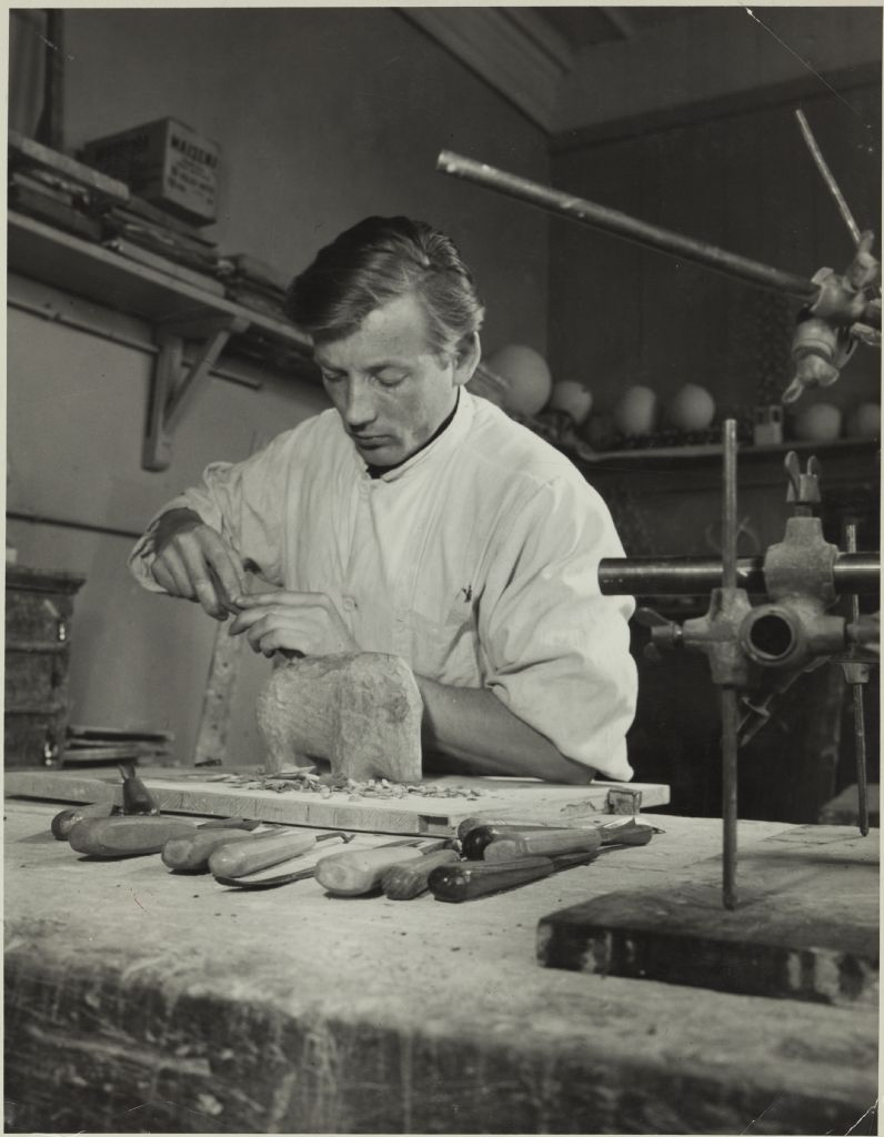 Photograph of the Finnish sculptor Kain Tapper (1930–2004) while studying at the University of Arts and Design in Helsinki.